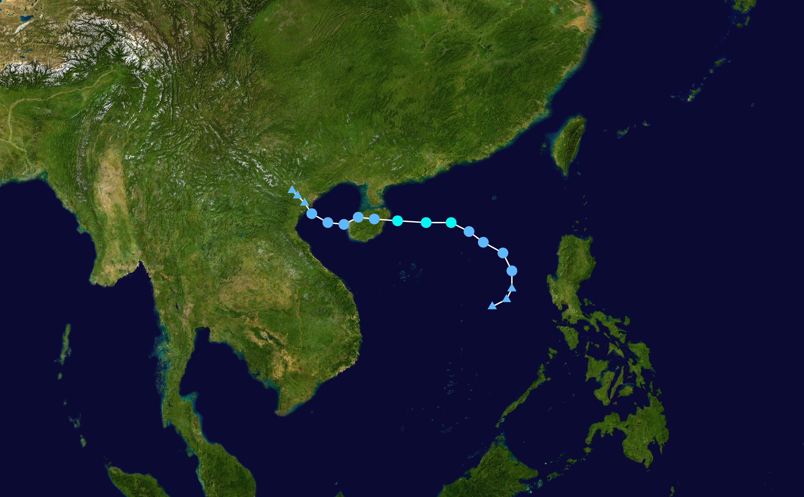 Track map of Tropical Storm Bebinca of the 2013 Pacific typhoon season. The points show the location of the storm at 6-hour intervals. The colour represents the storm's maximum sustained wind speeds as classified in the Saffir–Simpson scale (see below), and the shape of the data points represent the nature of the storm, according to the legend below. Saffir–Simpson scale Tropical depression≤38 mph≤62 km/h Category 3111–129 mph178–208 km/h Tropical storm39–73 mph63–118 km/h Category 4130–156 mph209–251 km/h Category 174–95 mph119–153 km/h Category 5≥157 mph≥252 km/h Category 296–110 mph154–177 km/h Unknown Storm type Tropical cyclone Subtropical cyclone Extratropical cyclone / Remnant low / Tropical disturbance / Monsoon depression